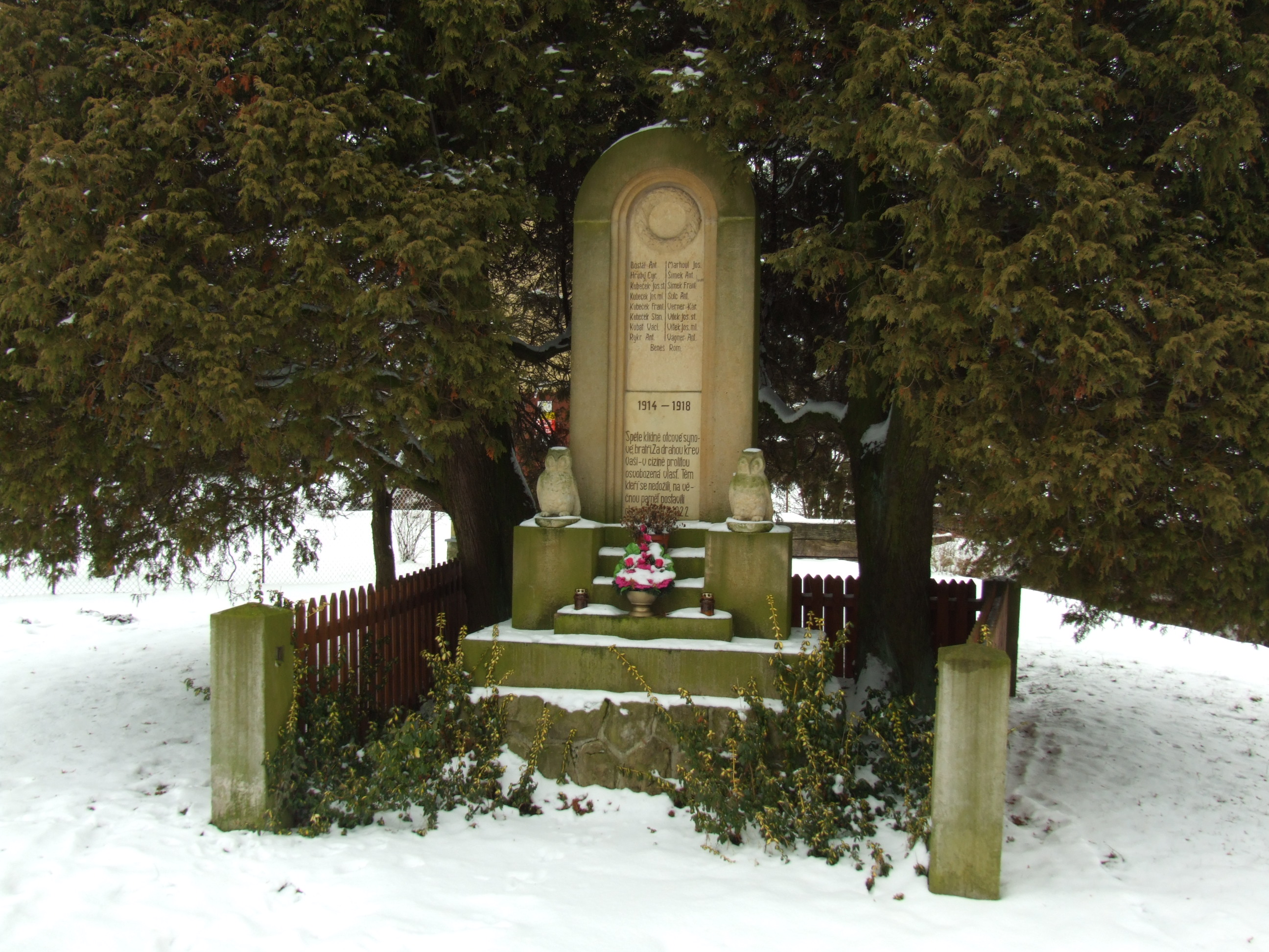 Machovská Lhota (Lhota Mölten) - WWI monument Česky: Machovská Lhota (Lhota Mölten) - památník obětem 1. světové války